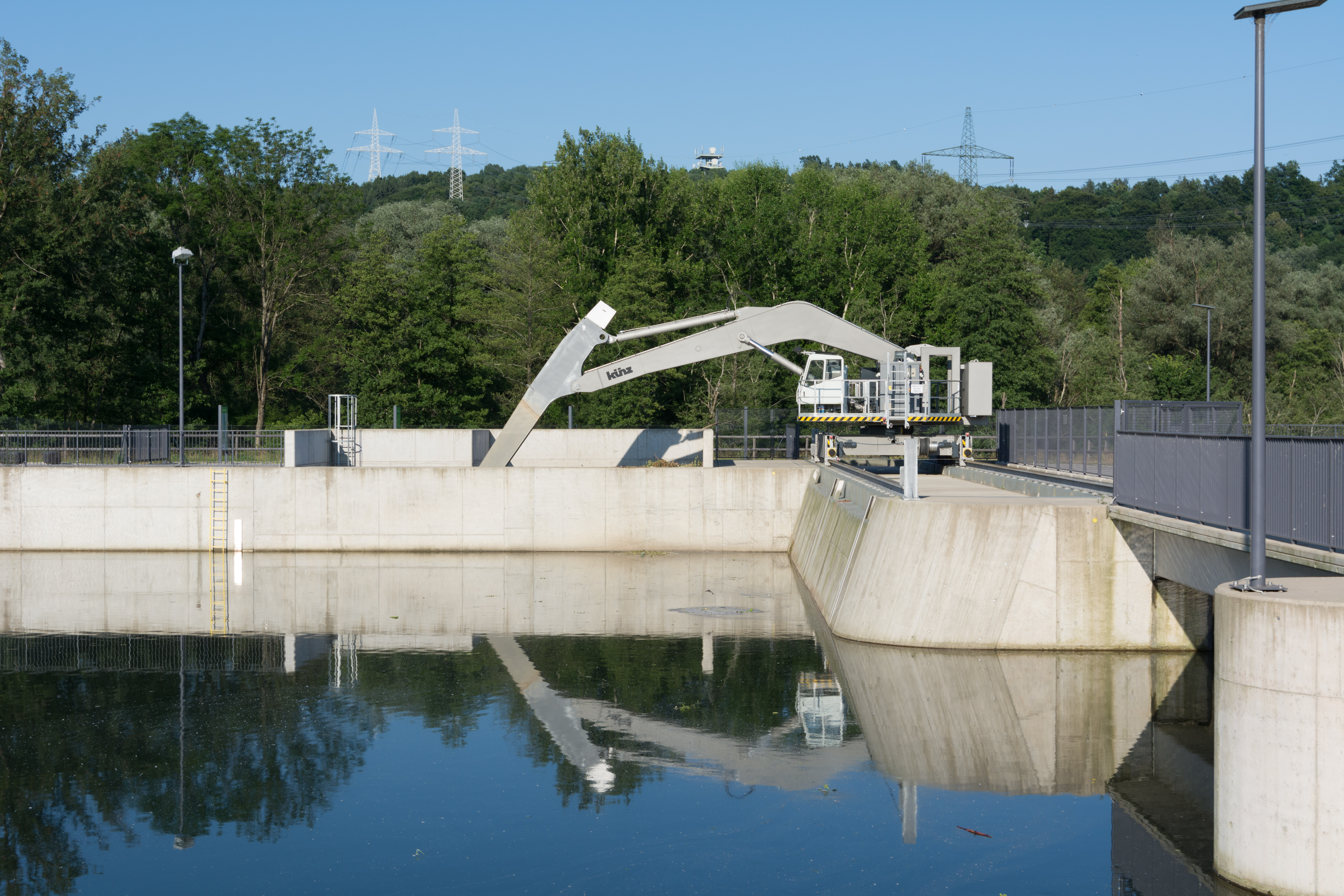 The Hydroelectric power station Kalsdorf retains the river Mur in the south of Graz. The two Kaplan bulb turbines are providing an output of 19 MW. A trash rack cleaning unit is used to remove debris at the turbine gate.